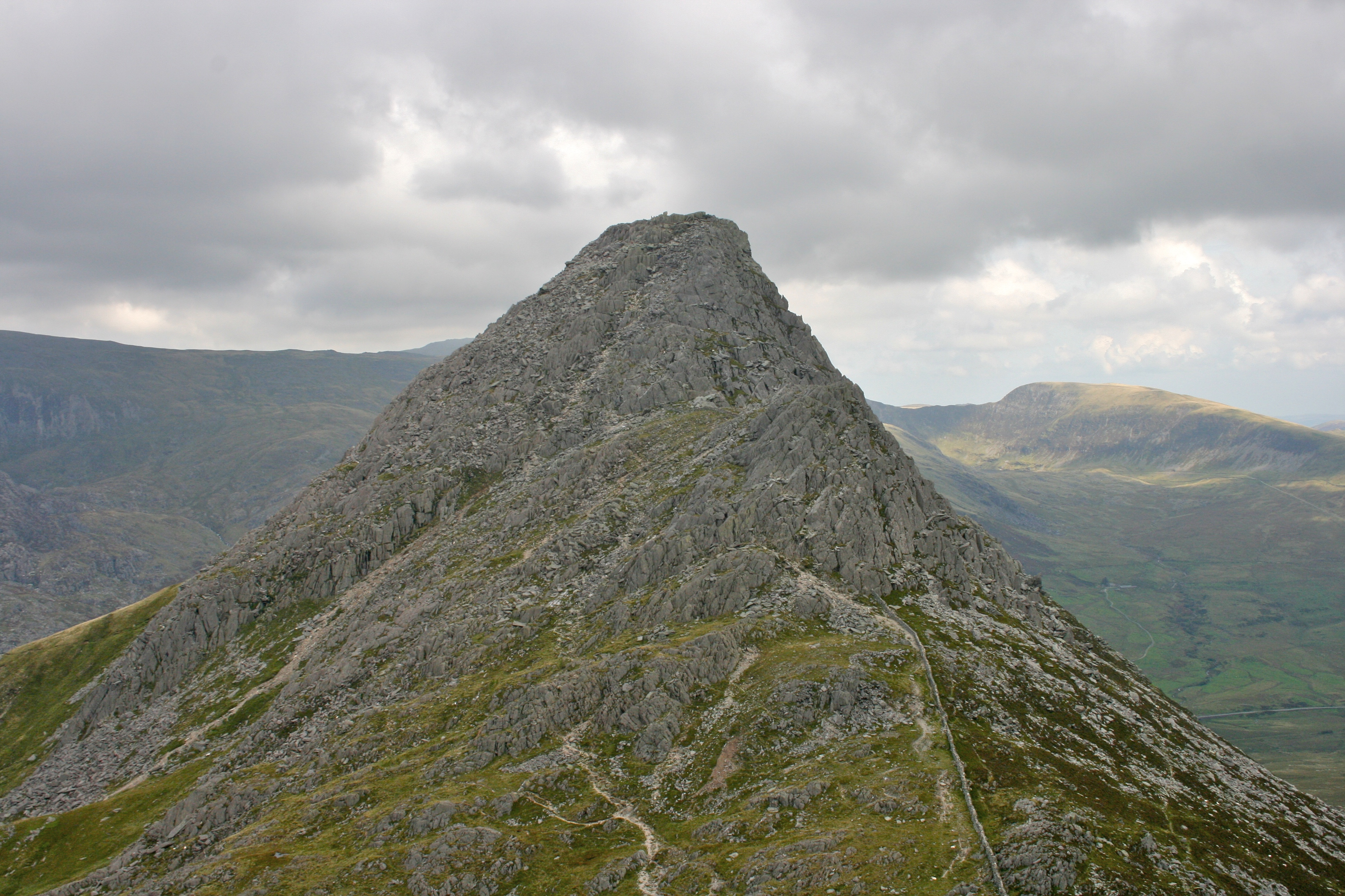 Tryfan from Glyder Fach